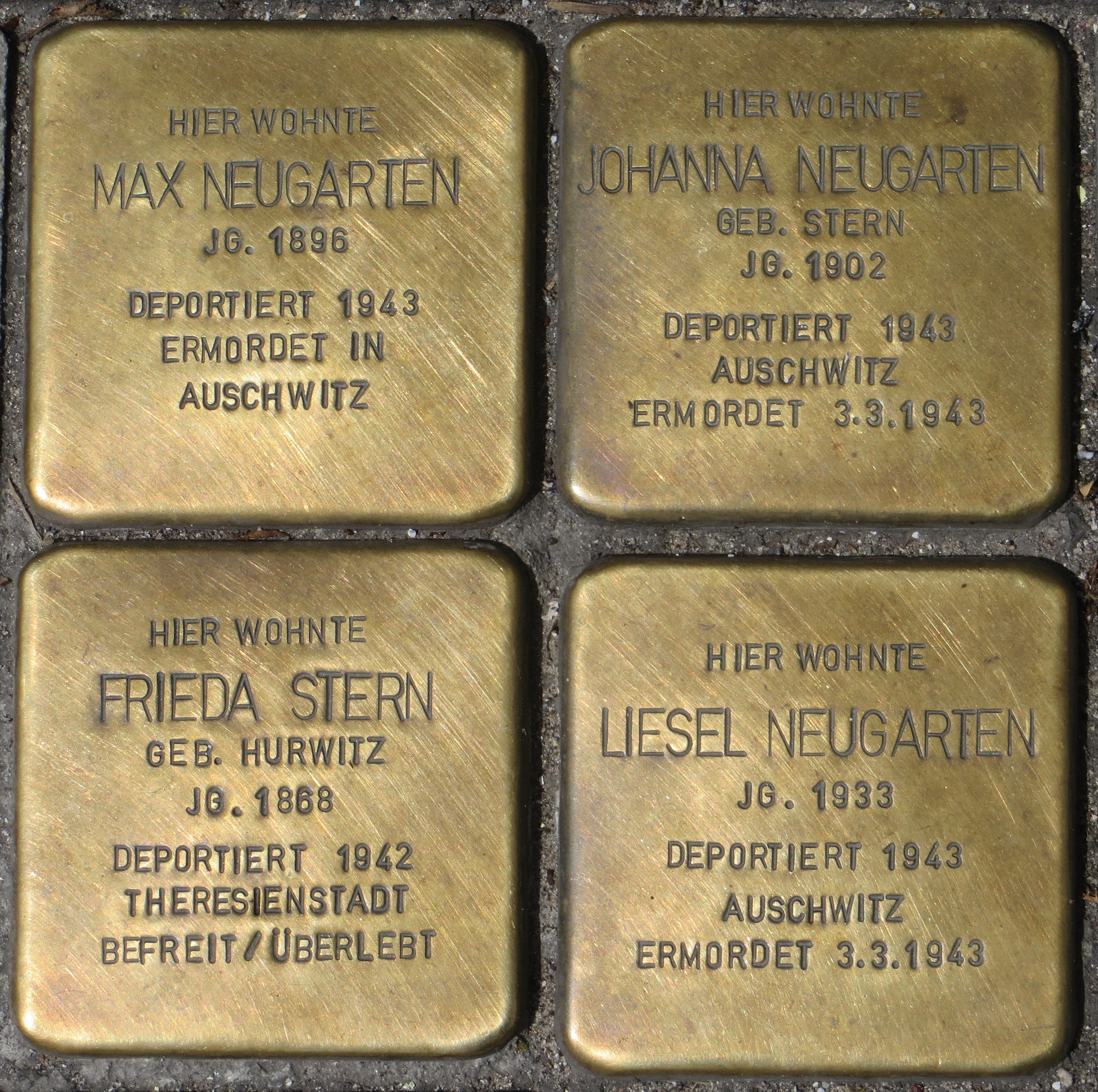 Stolpersteine at house Rheinische Straße 29 in Dortmund, GermanyEsperanto: Stumbligaj ŝtonetoj ĉe domo Rheinische Straße 29 en Dortmund, Germanio